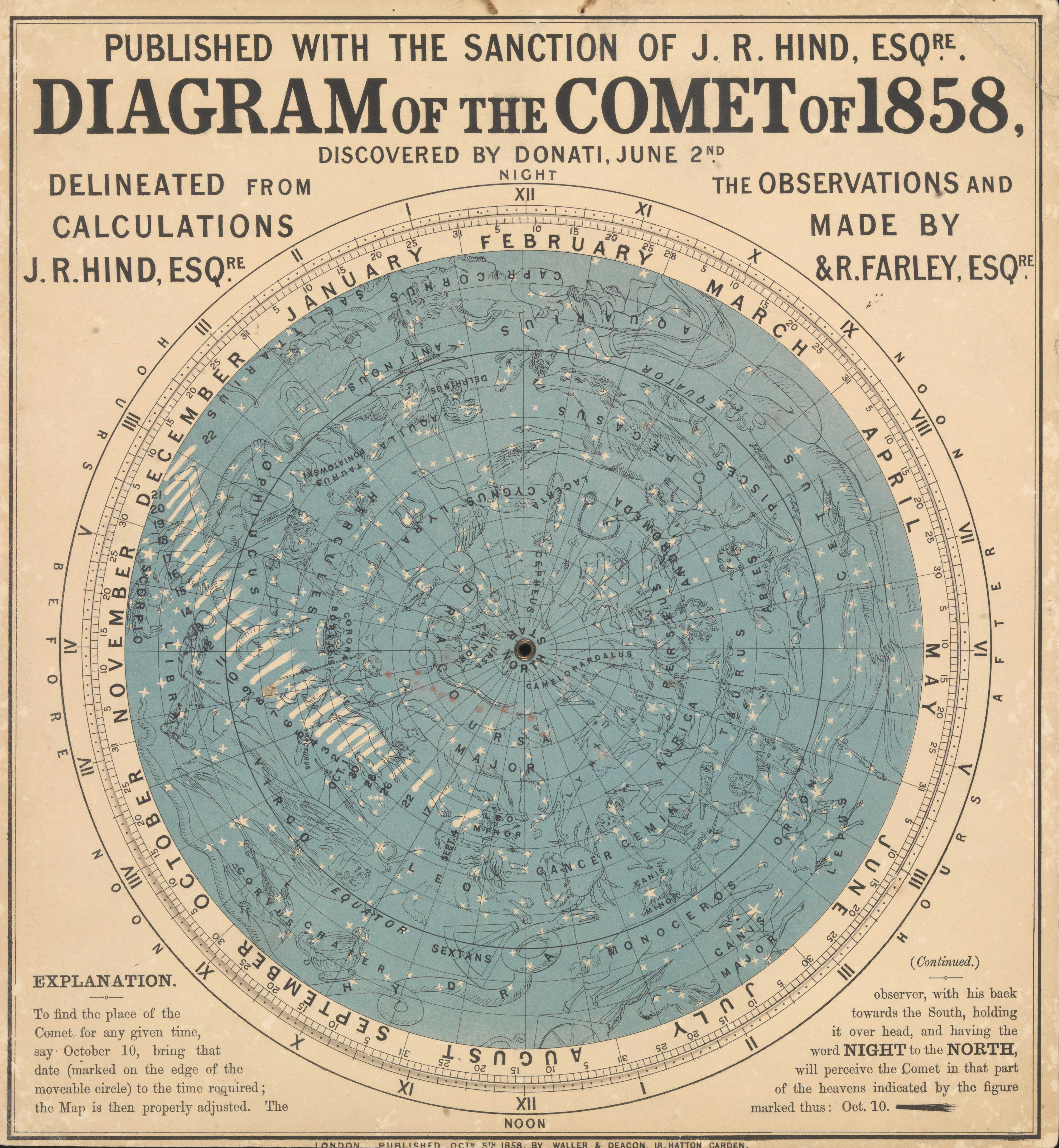 Diagram of the Comet of 1858 Discovered by Donati, June 2nd. In the 19th century there were a number of spectacular or anticipated comets visible to the naked eye that generated significant popular as well as specialist interest. This popular interest and the commercial opportunities it provided is illustrated by this diagram, which responded to the discovery of a new comet by Giovani Battista Donati on 2 June 1858. It made its nearest approach to Earth on 10 October 1858, just five days after this print was published. This diagram was based on observations by John Russell Hind (1823-1895), Superintendent of the Nautical Almanac Office, and Richard Farley, Chief Assistant at the NAO. The central dial can be moved round to calculate the position of the comet against the background of the principal constellations and text on the card gives instructions to the user. Diagram of the Comet of 1858 Discovered by Donati, June 2nd.